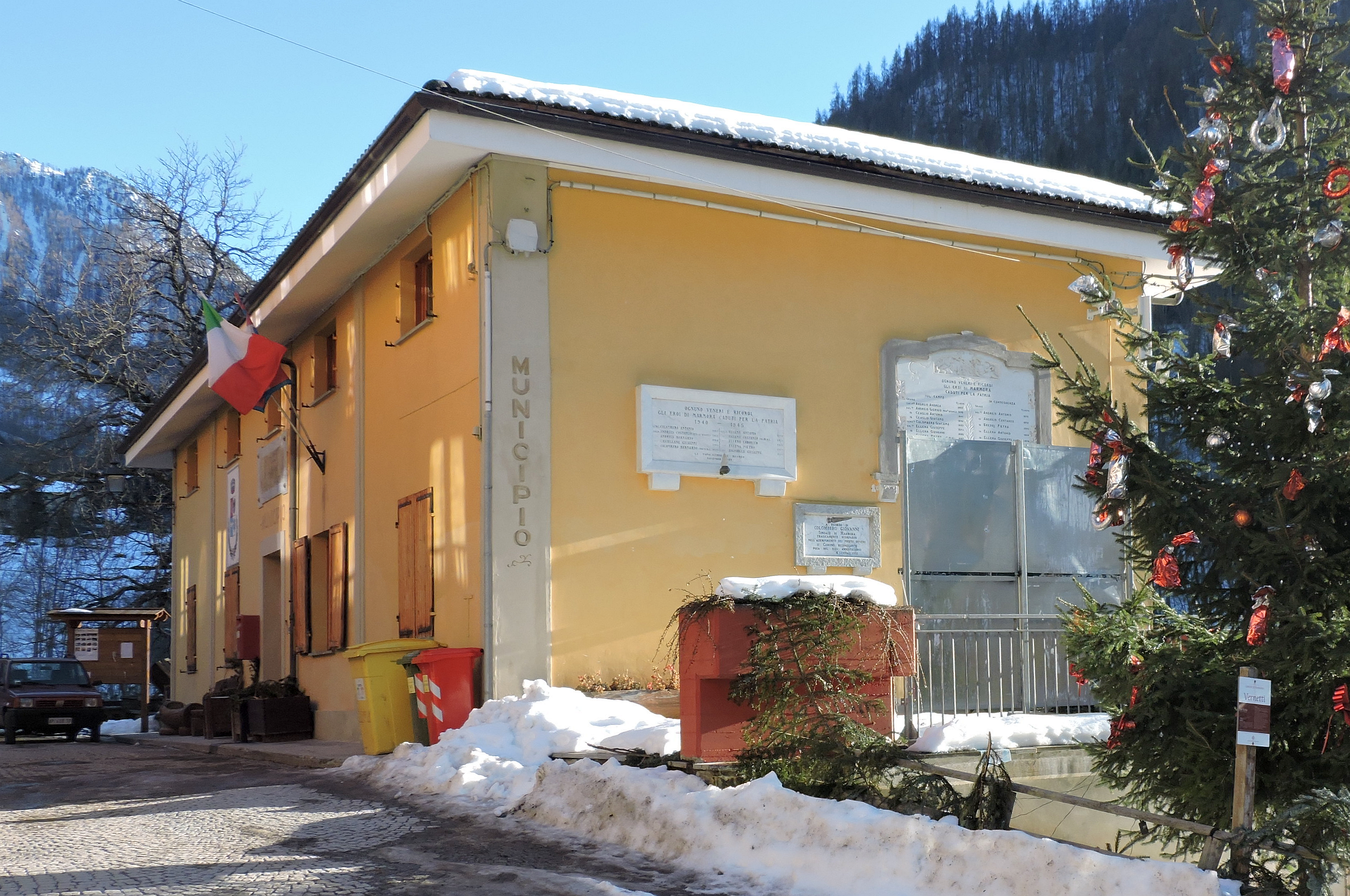 Marmora (Italy, Piedmont): town hall